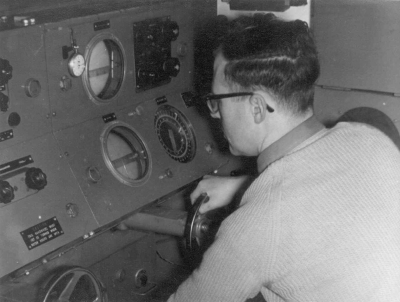 Bill Wallace operates the range and bearing controls of a GL Mk. III radar, by this time known as the AA No.3 Mk.4. Wallace is using the radar to track a weather balloon carrying a radar reflector, taking a measurement once every minute as timed by the stopwatch hanging from the top of the console. These measurements were then used to calculate the speed of the balloon at different altitudes, and thus determine the winds aloft. Surplus WWII-era Mk. III's was used in the meteorological role well into the 1950s. This image shows the rightmost side of the operations console, where range was measured. The upper CRT, eye level, displayed everything within 32,000 yards of the radar. Turning the hand wheel set a bias control that moved a marker, known as the "strobe", along the upper display. A target was picked out by moving the strobe under its "ping" on the display. The lower CRT, just above the hand wheel, showed only the pings within the 6 microsecond strobe, of about 1.8 kilometres, allowing very accurate measurements. By slowly turning the wheel, the operator would keep the target blip lined up on a metal wire stretched across the face of the lower CRT, which can be just made out in this photograph. The range is then read off the dial to the right of the lower CRT. Offscreen to the left are similar operator consoles for the bearing and elevation measurements. These stations had only one CRT, displaying only the target selected in the range operator's strobe, in the same fashion as the lower range unit. The location of the upper CRT was instead used for the measuring dials. Note the bearing control wheel, in the lower left, is much larger than the range dial. This is because the bearing was measured by rotating the entire radar antenna, mounted on a large pole.